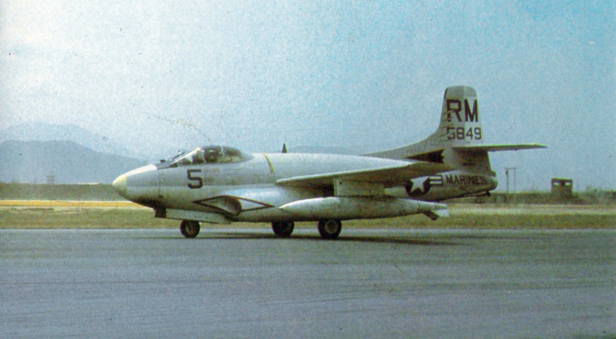 A U.S. Marine Corps Douglas EF-10B Skyknight (BuNo 125849) of Marine Composite Reconnaissance Squadron 1 (VMCJ-1) "Golden Hawks" landing at Da Nang, South Vietnam, in the second half of the 1960s.